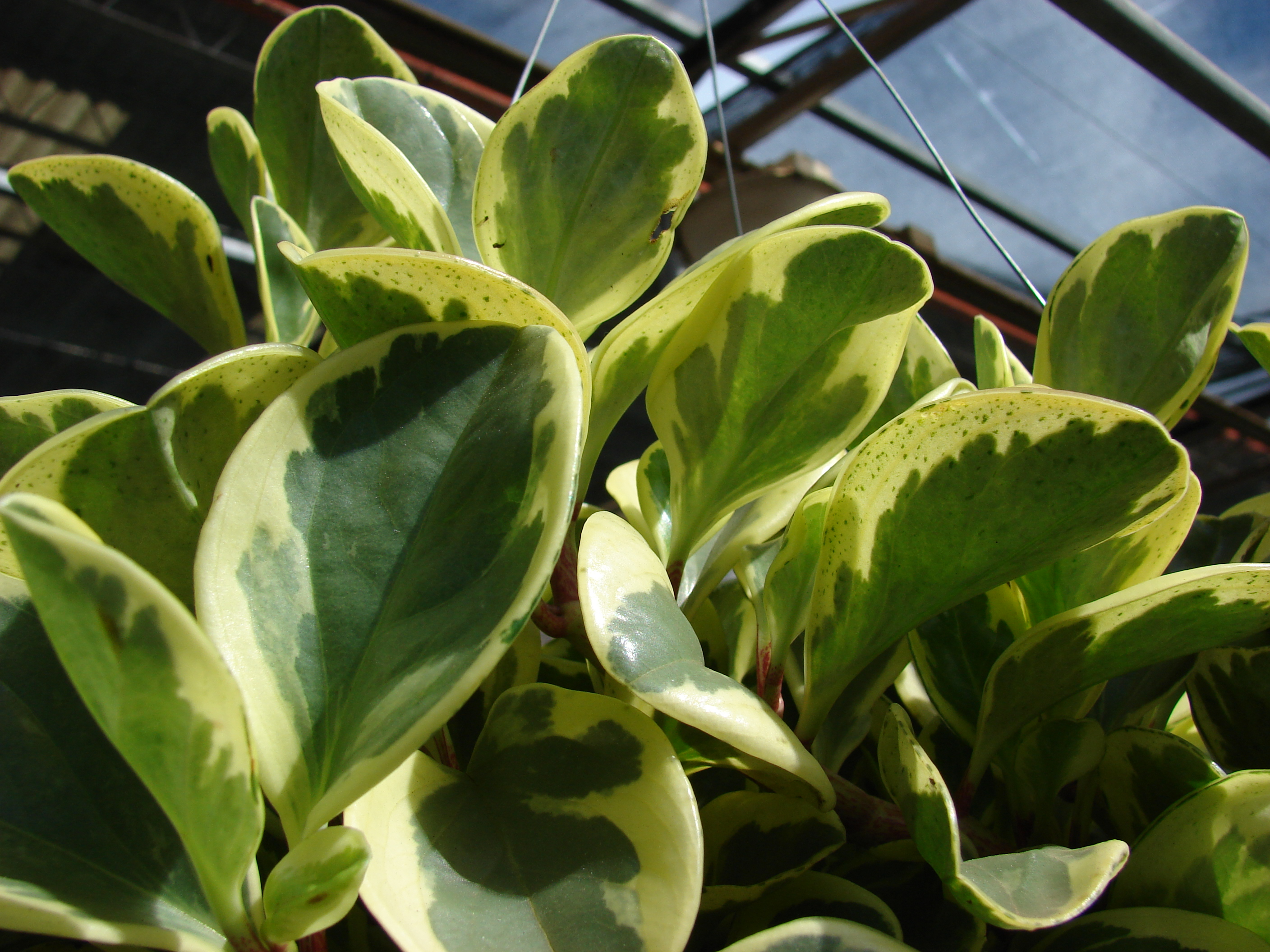 Peperomia magnoliifolia `Variegata` (hanging basket). Location: Maui, Home Depot Nursery Kahului